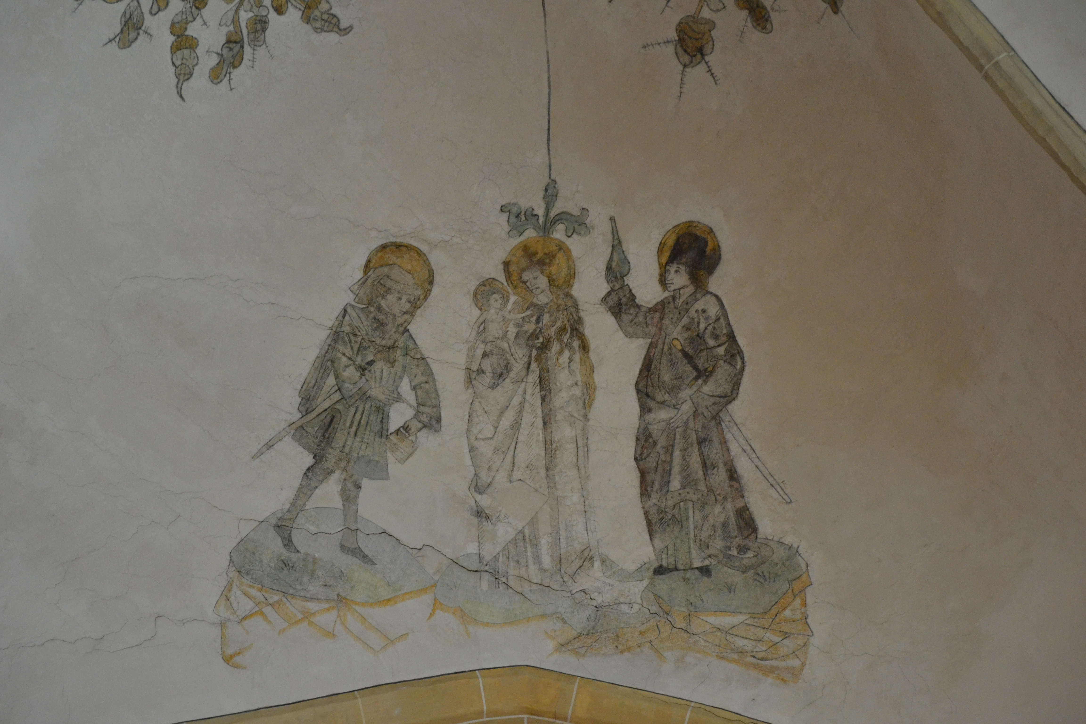 Paining of Cosmas and Damianus on one of the vaults in the Martinichurch in Groningen (NL)